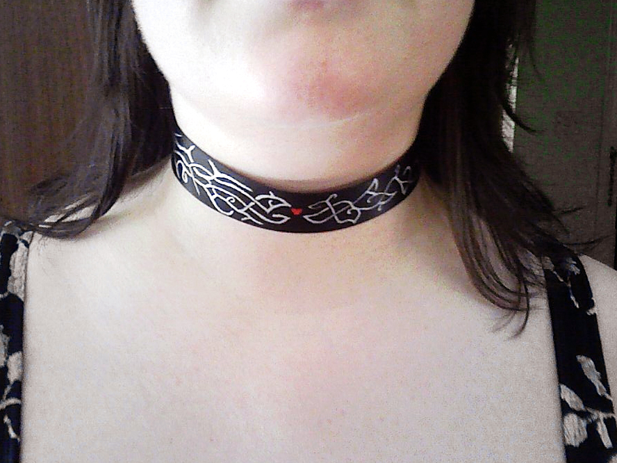 Silver and red acrylic paint on black double-satin ribbon. The fastener is just thin red ribbon looped through the hemmed ends and tied off.